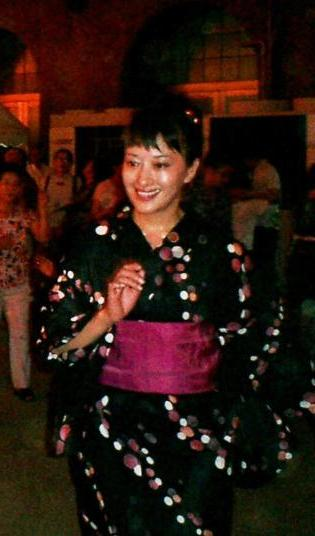 Keiko Haruno is Rev. Naniwabushi Recitation